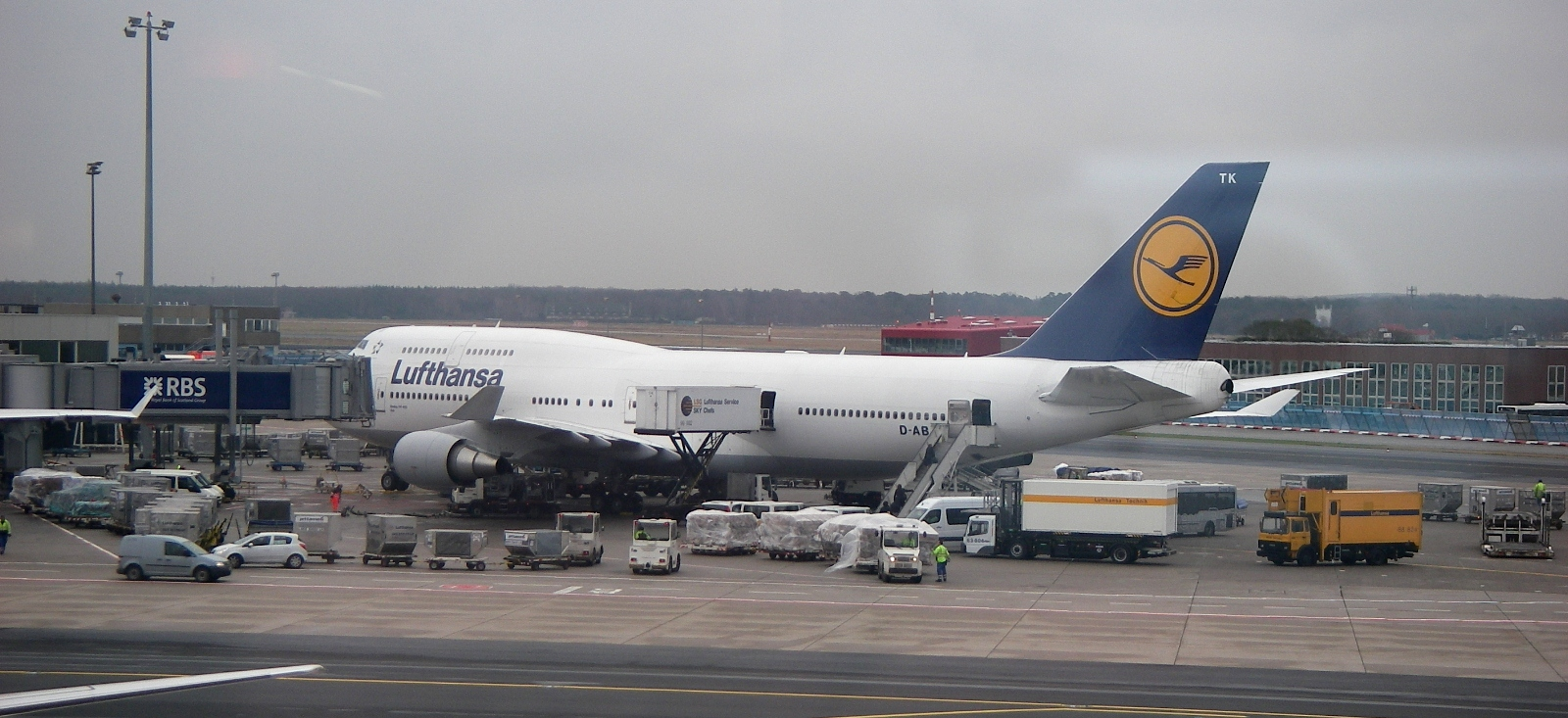 Luggage loading (onto Lufthansa's Boeing 747-400) at Frankfurt airport